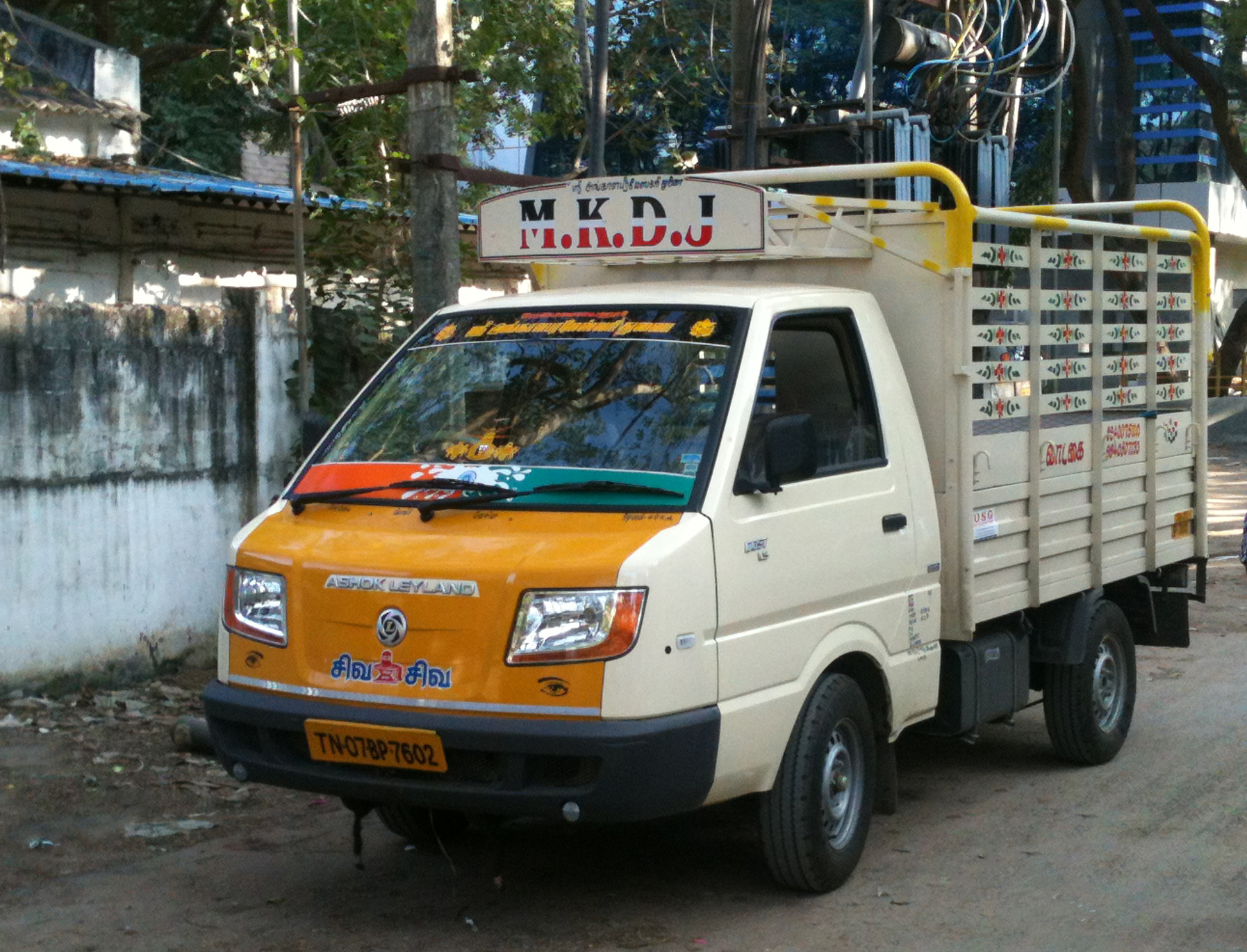 Ashok Leyland Dost in Chennai.